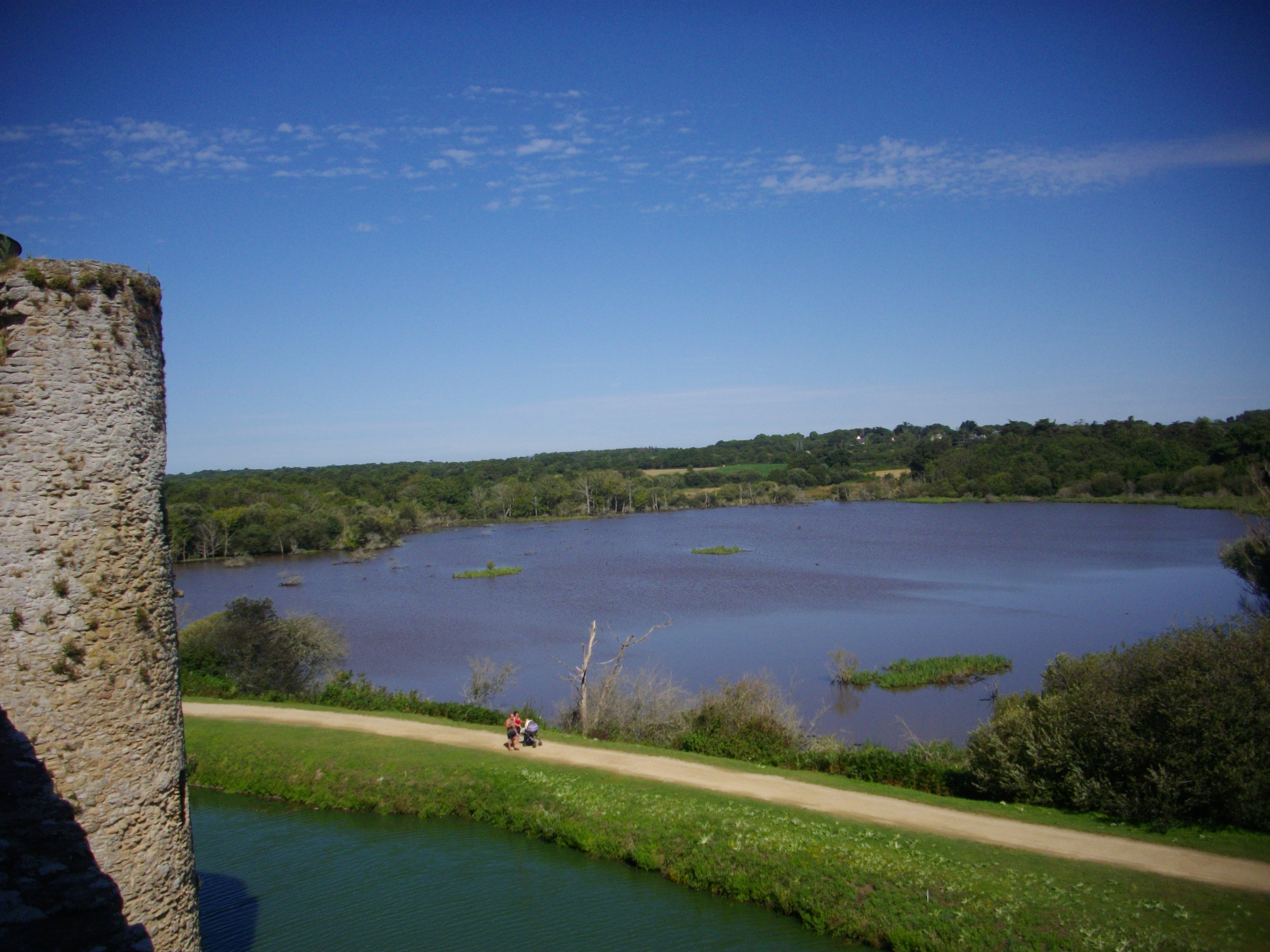 Swamps seen from Suscinion castle (Sarzeau, Morbihan, France)